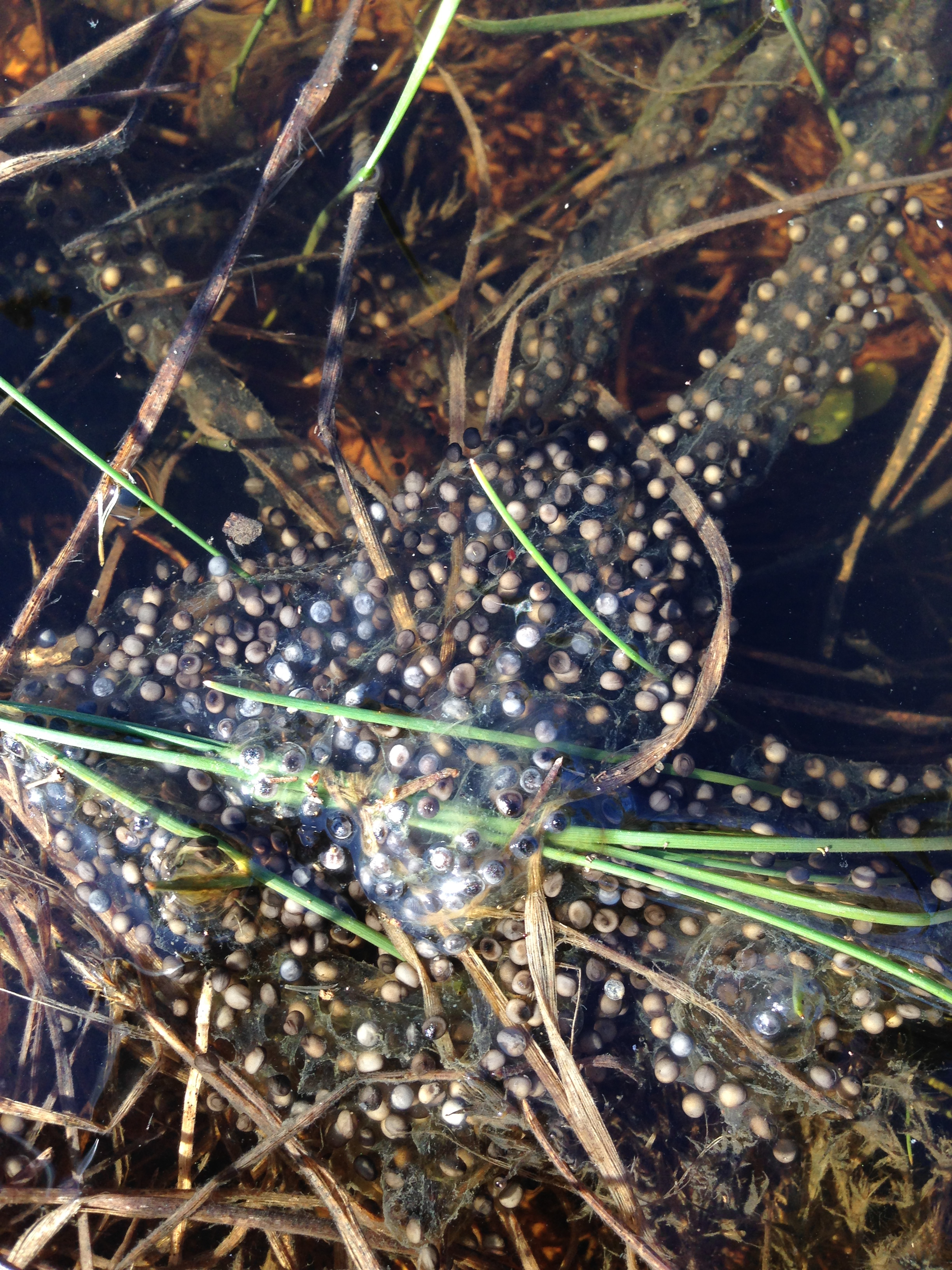 Frogspawn of Pelobates syriacus, Rehovot Vernal pool, Israel. 2017-01-06